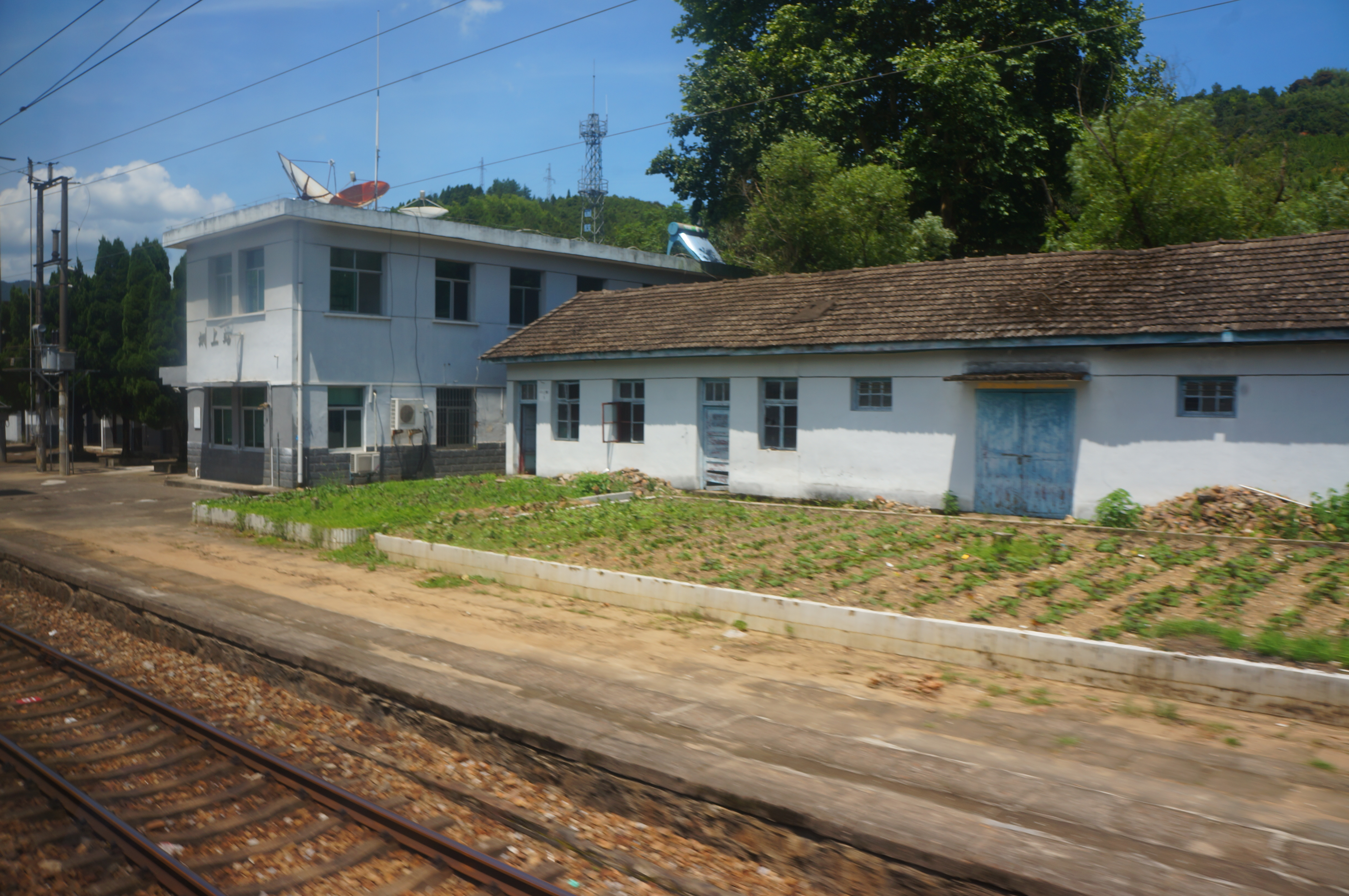 201806 Station Building of Zhenshang Station